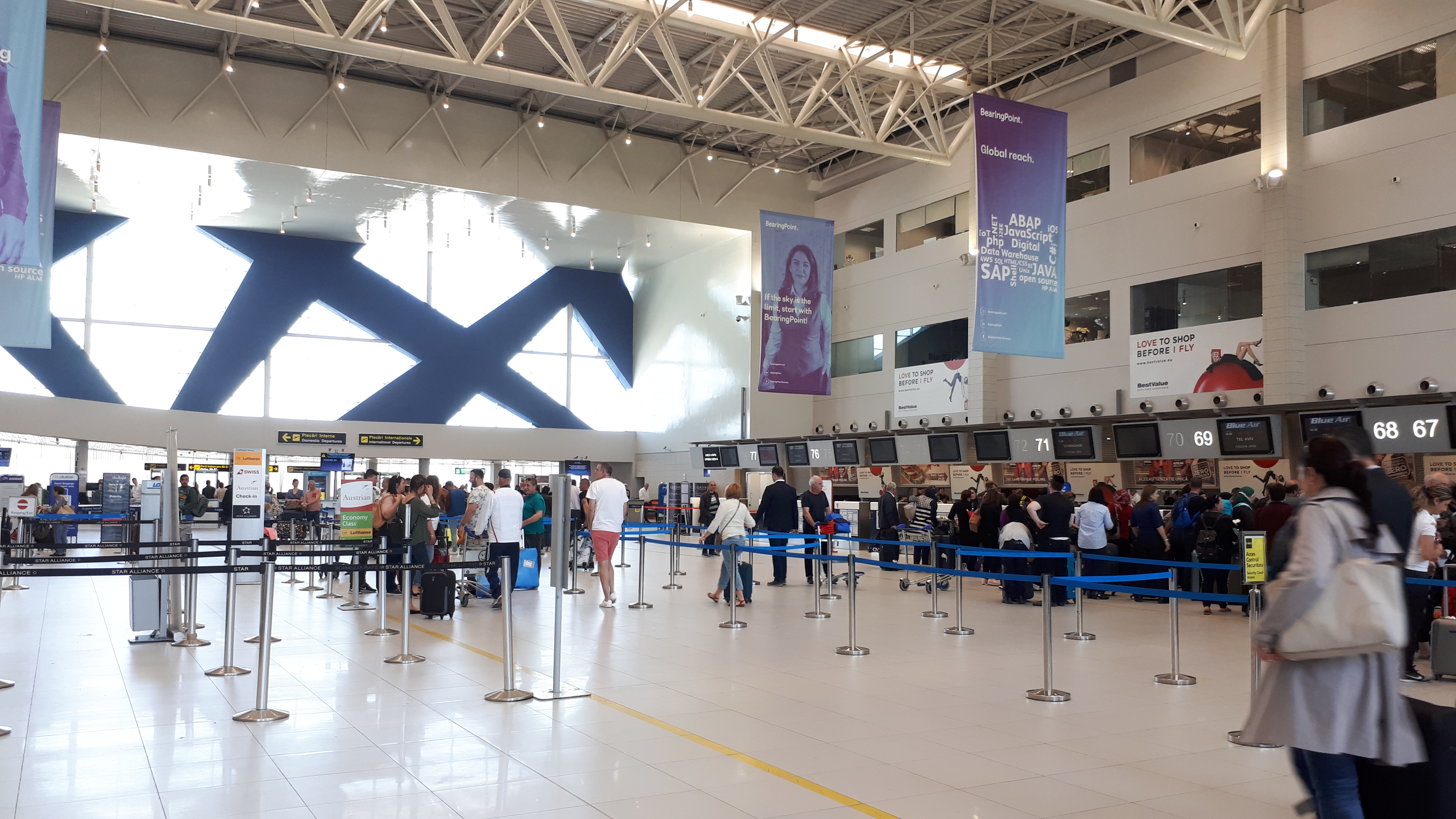 Henri Coanda Airport, April 2018